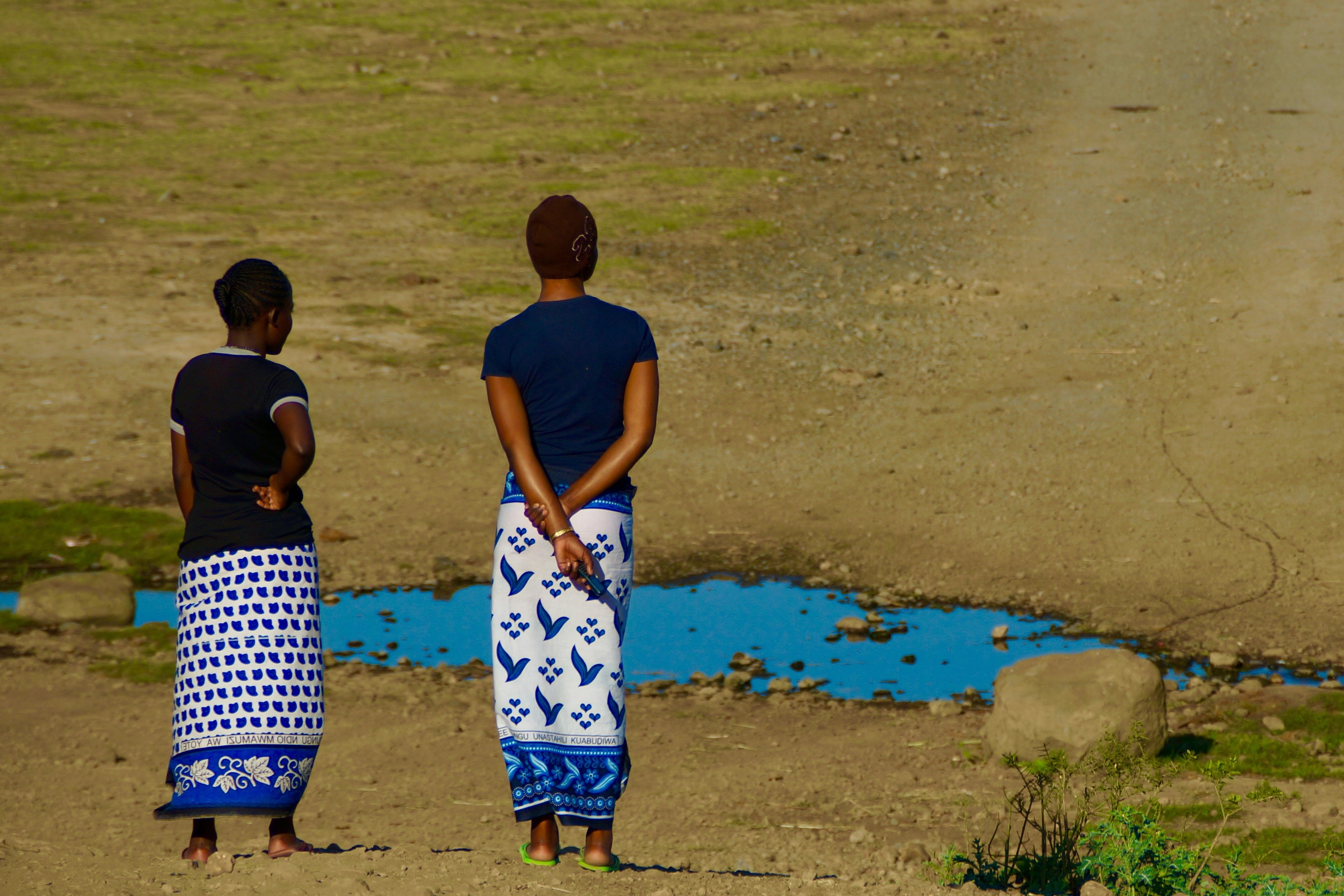 Two women wearing Kangas with Swahili sayings in Moshi, Tanzania. This is an image of Cultural Fashion or Adornment from Tanzania